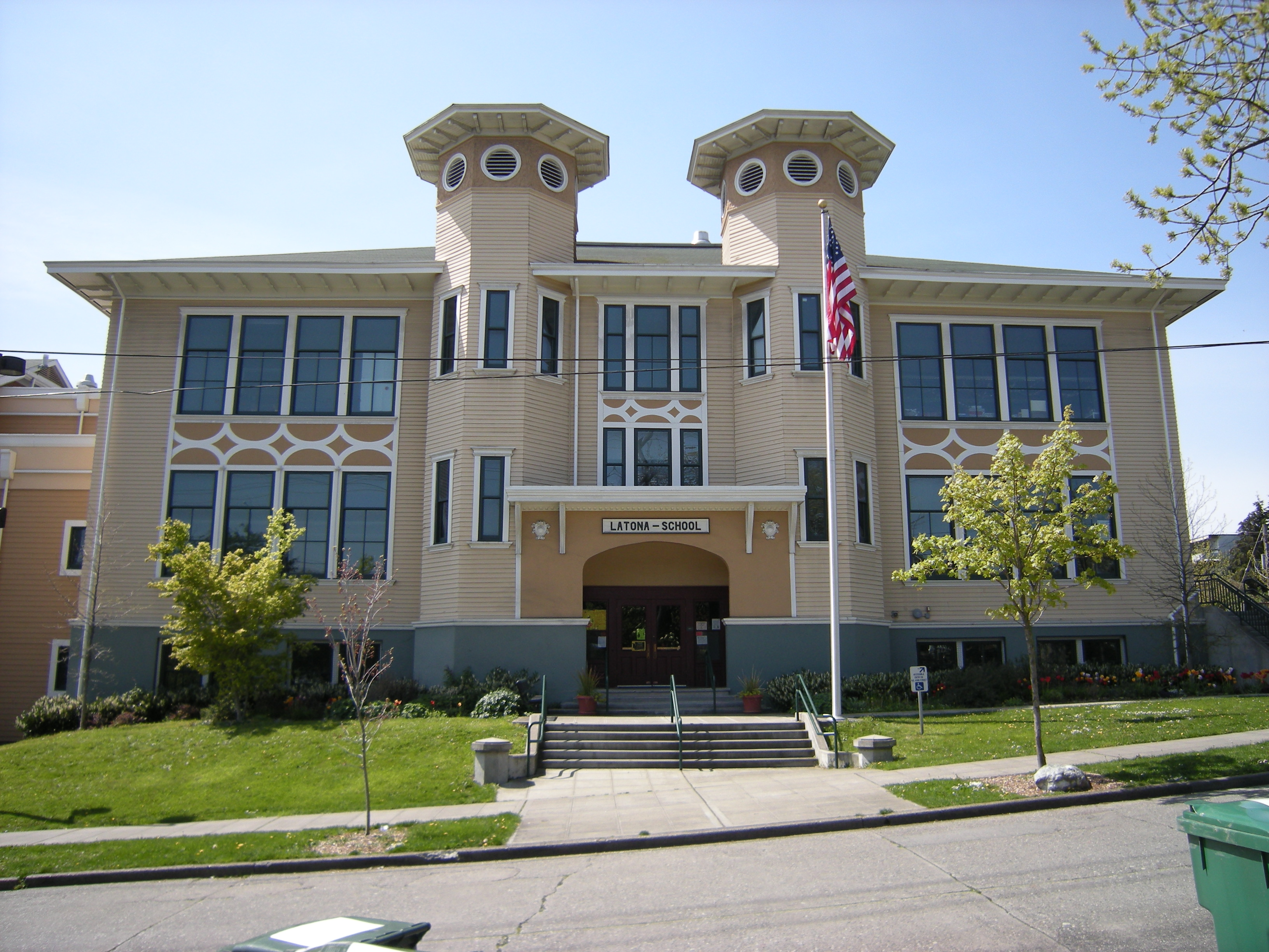 Latona School, Latona neighborhood / Lower Wallingford, Seattle, Washington, U.S. The building, now with a special program as the John Stanford International School, has city landmark status